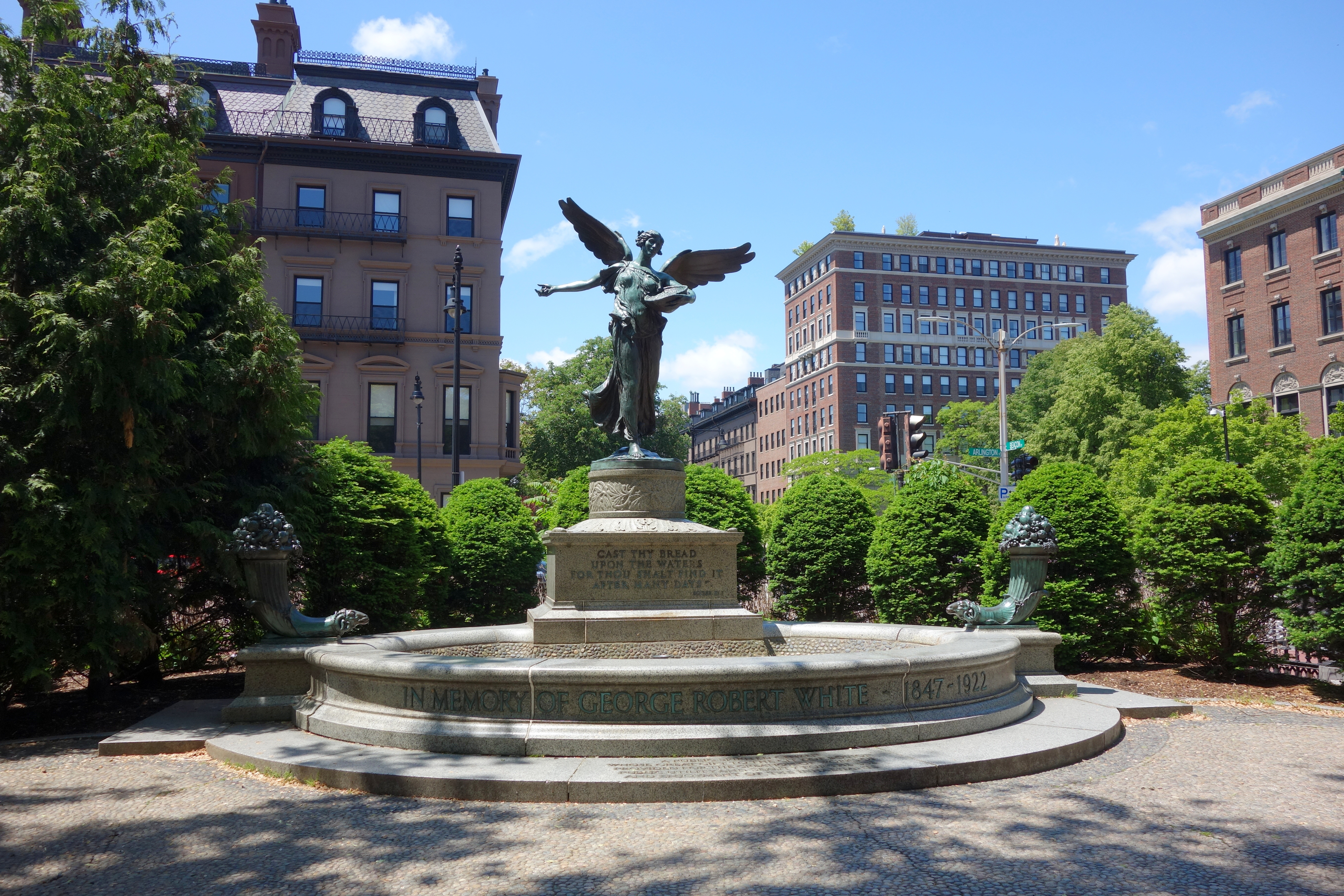 George Robert White Memorial - Boston, Massachusetts, USA. Sculptor: Daniel Chester French (April 20, 1850 – October 7, 1931). Architect: Henry Bacon (1866-1924). This artwork is in the public domain because the artists died more than 70 years ago.